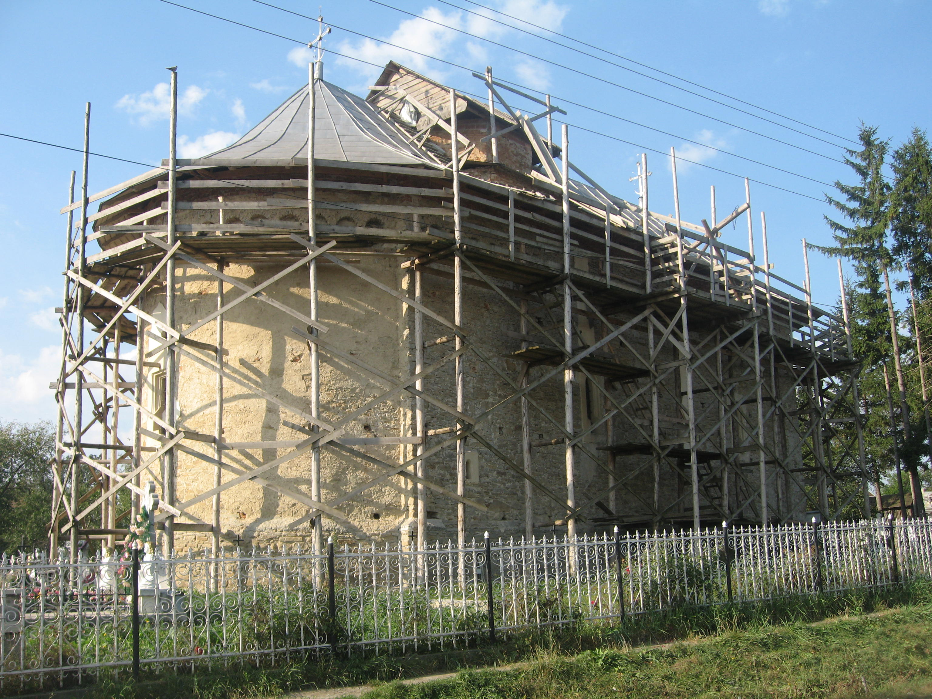 Biserica Sfântul Dumitru din Zahareşti 01